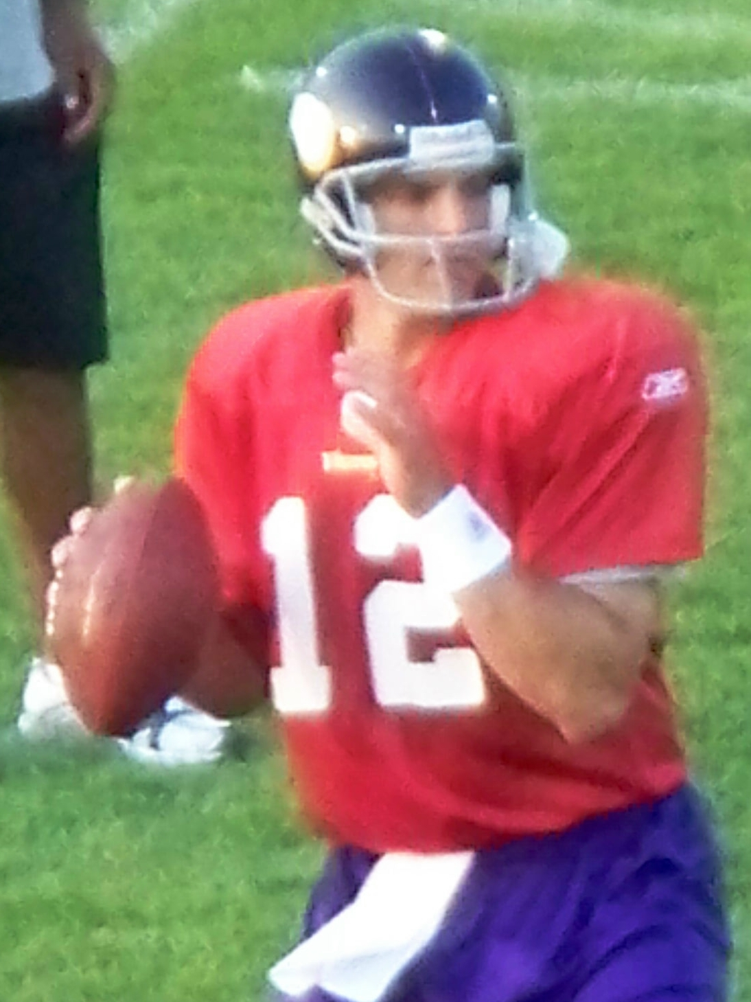 Minnesota Vikings quarterback Gus Frerotte at 2008 training camp.